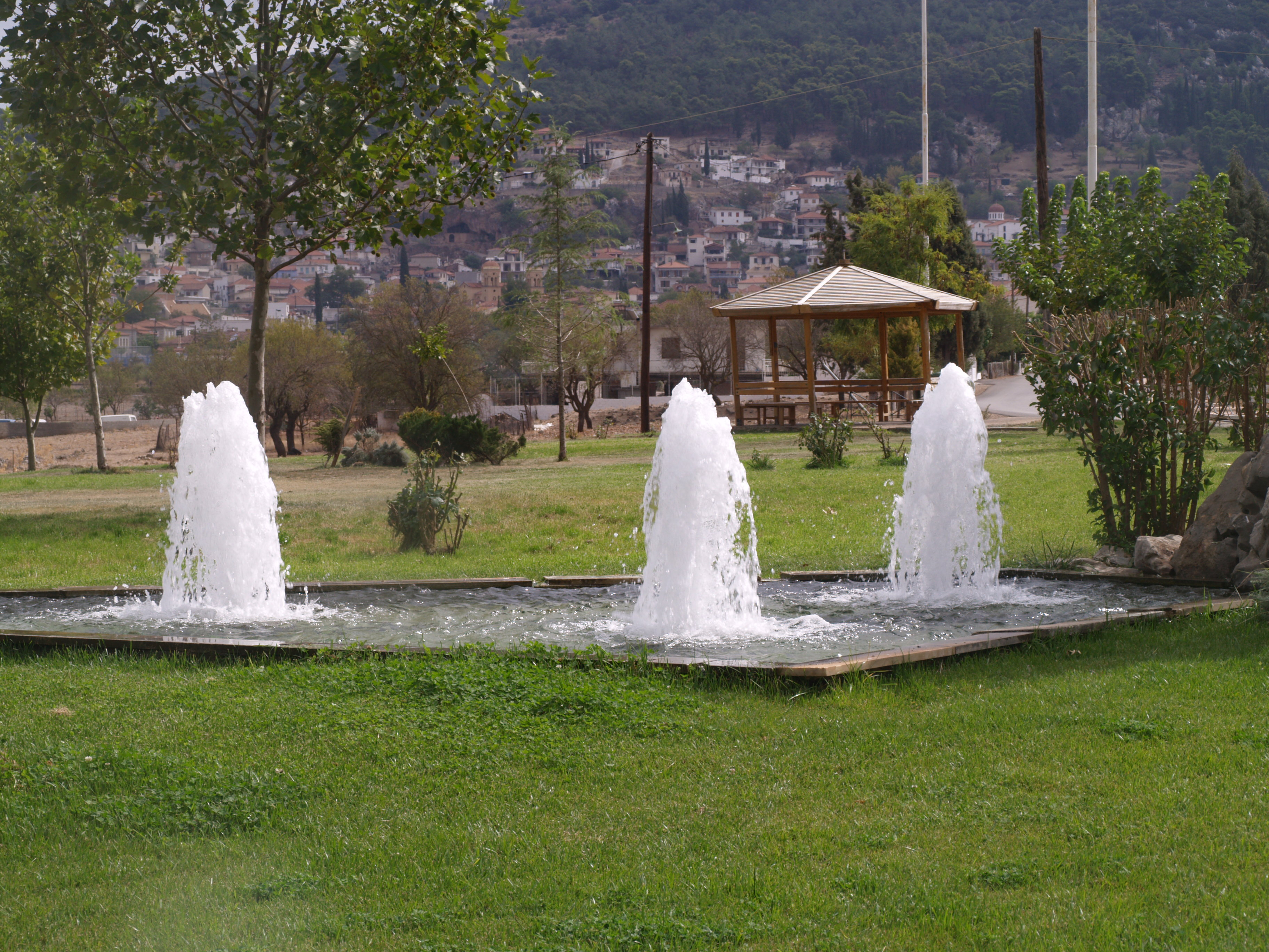 I, the copyright holder of this work - Desfina Fokidos